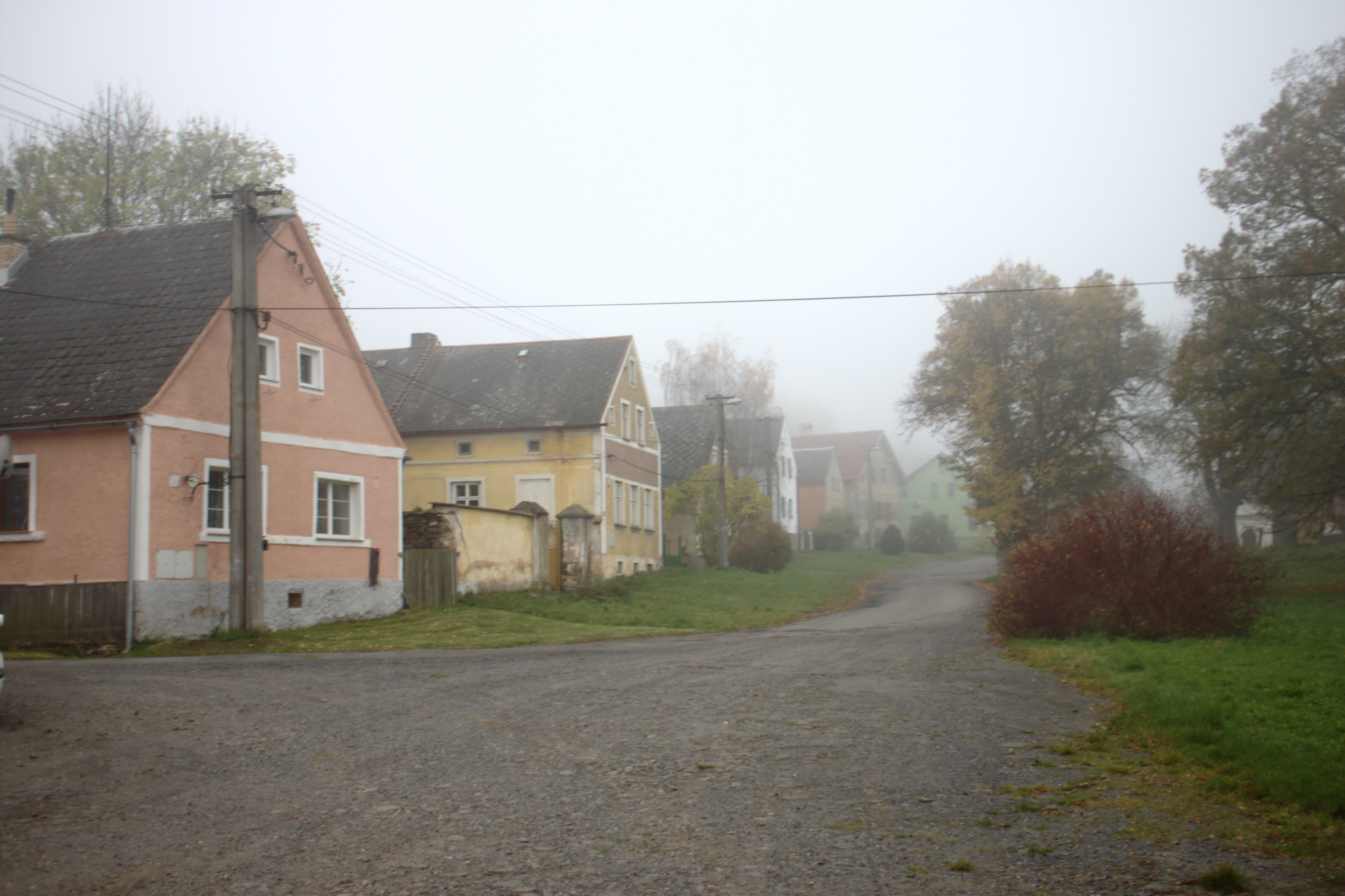 Various buildings at the main common in Komárov, Karlovy Vary Region, CZ